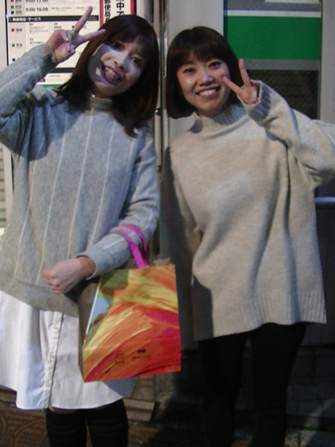 Kitchen Park 2020-01-20